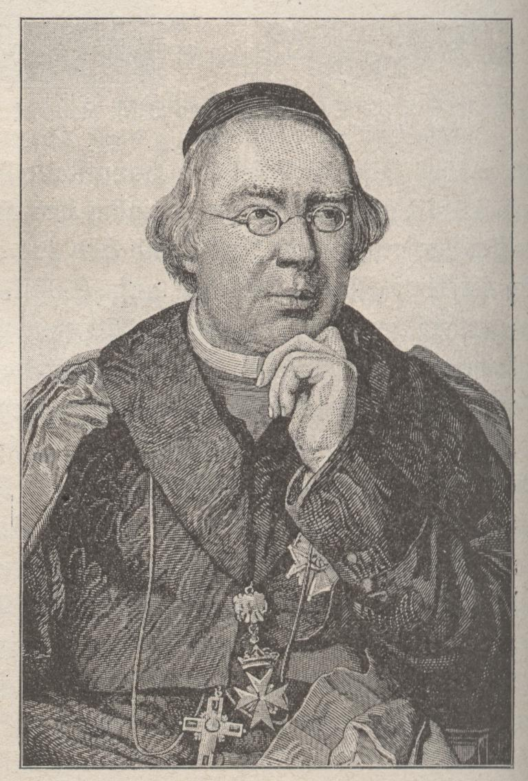 Nicholas Cardinal Wiseman, Engraving 1860